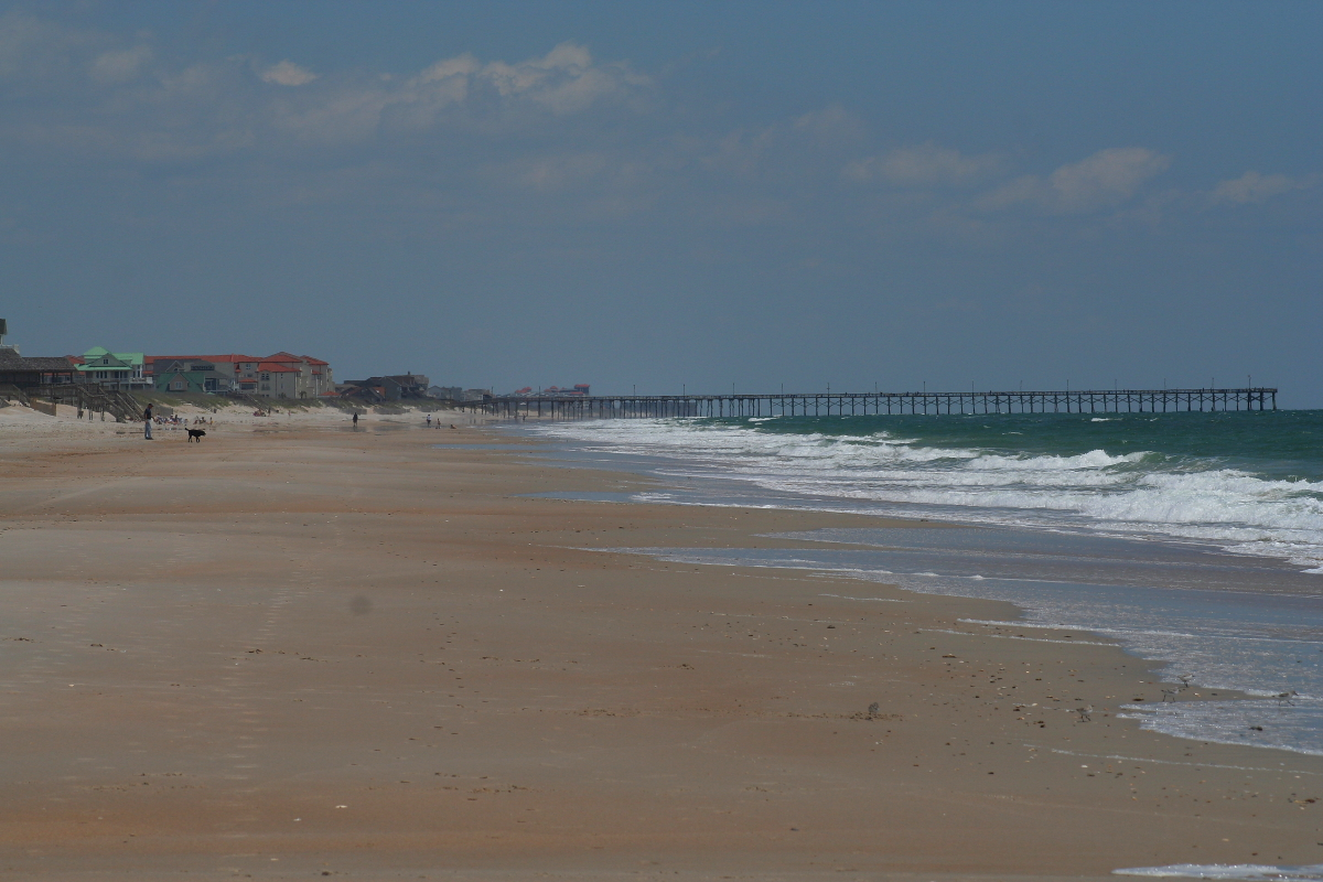 Topsail Island Beach